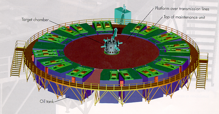 Artist rendering of the ATLAS Pulsed-Power Generator.